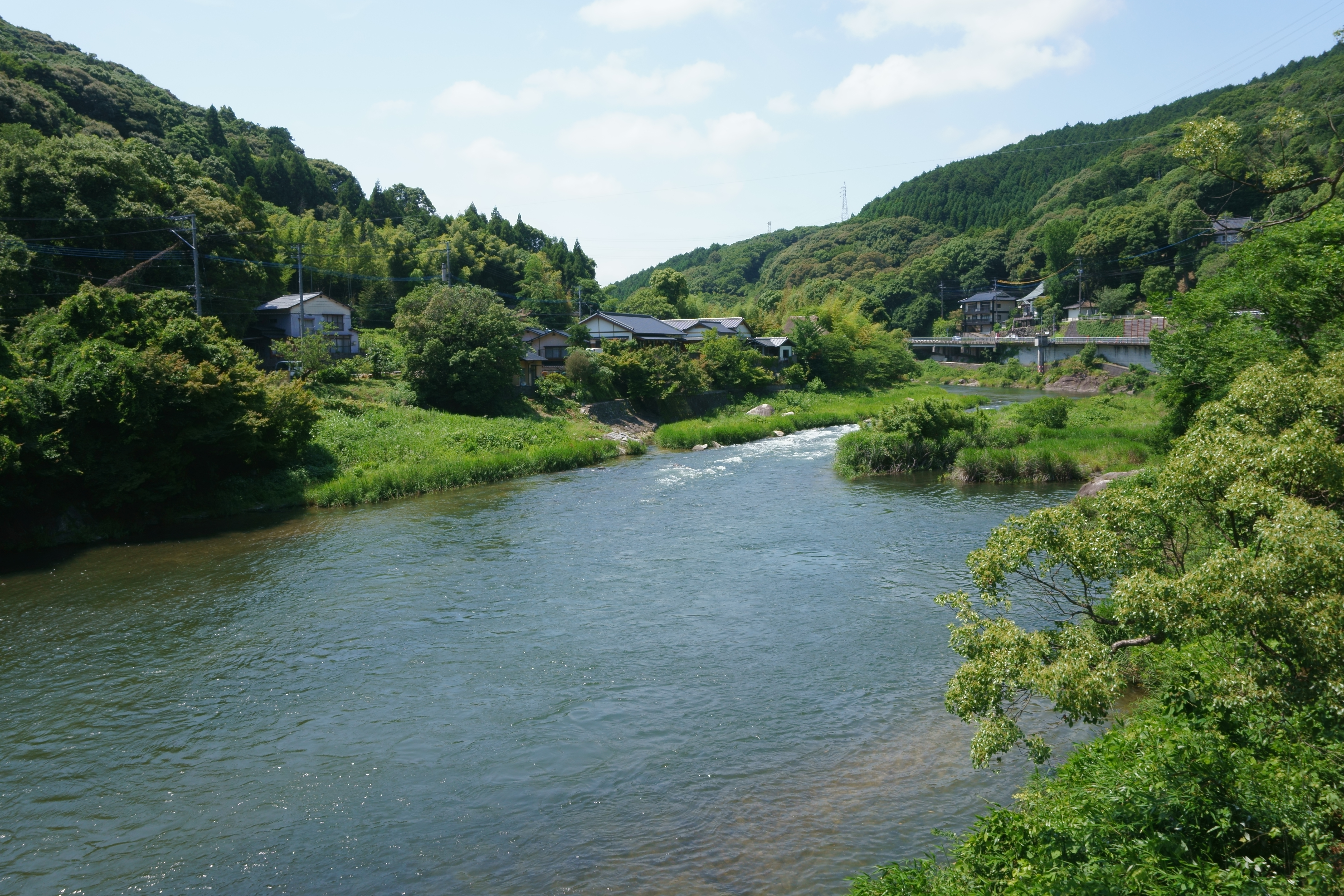 Kawakami-kyo Ravine in the middle of Kase River, in Yamato-cho, Saga city, Saga prefecture, Japan.